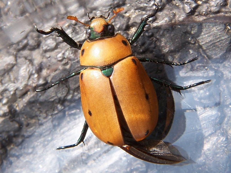 Grapevine Beetle Pelidnota punctata. The grapevine beetle is a member of the subfamily Rutelinae of the Scarab beetle family. These potentially destructive beetles are known as "shining leaf chafers".